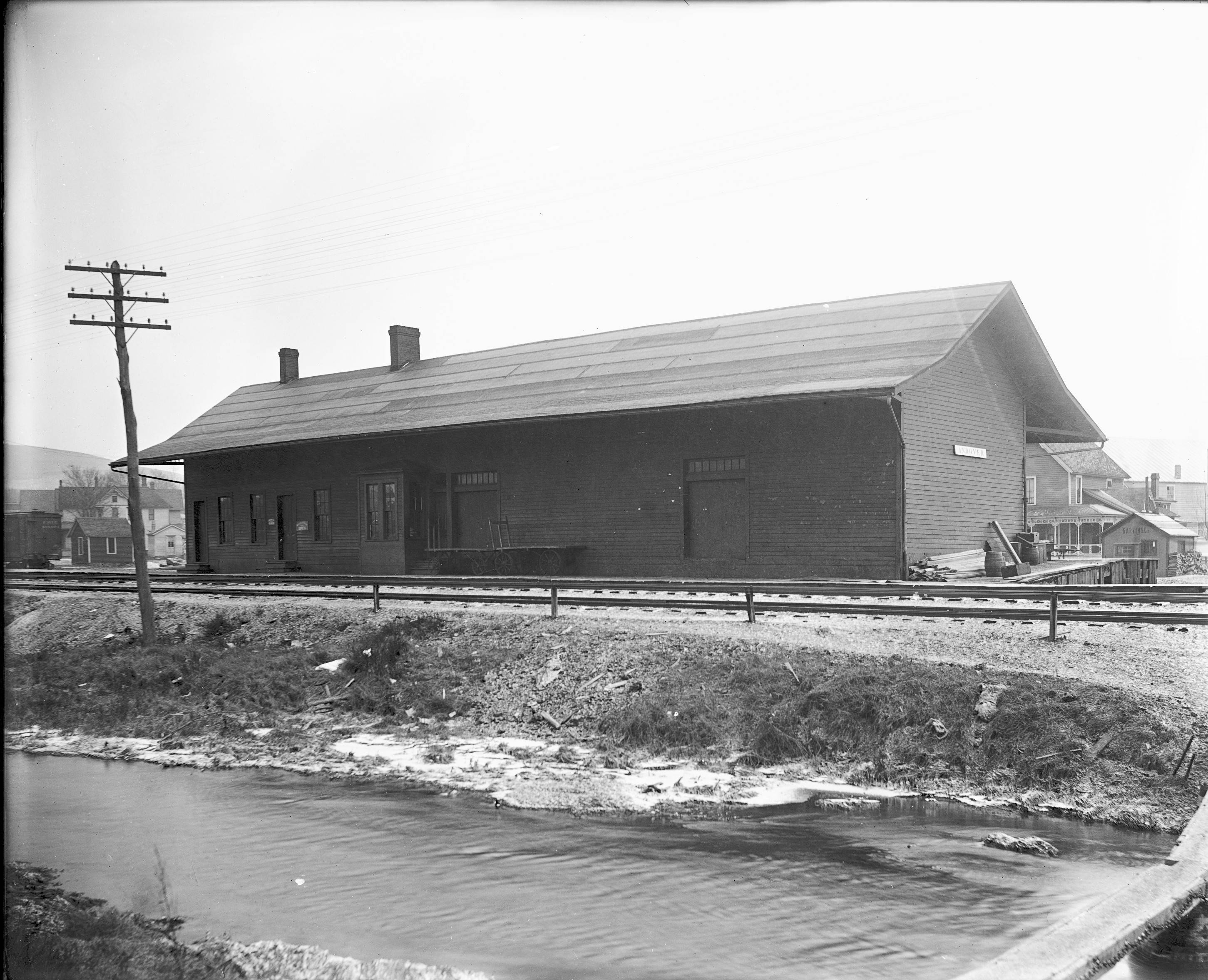 The Andover Erie Railroad station on the main line in Andover, New York.